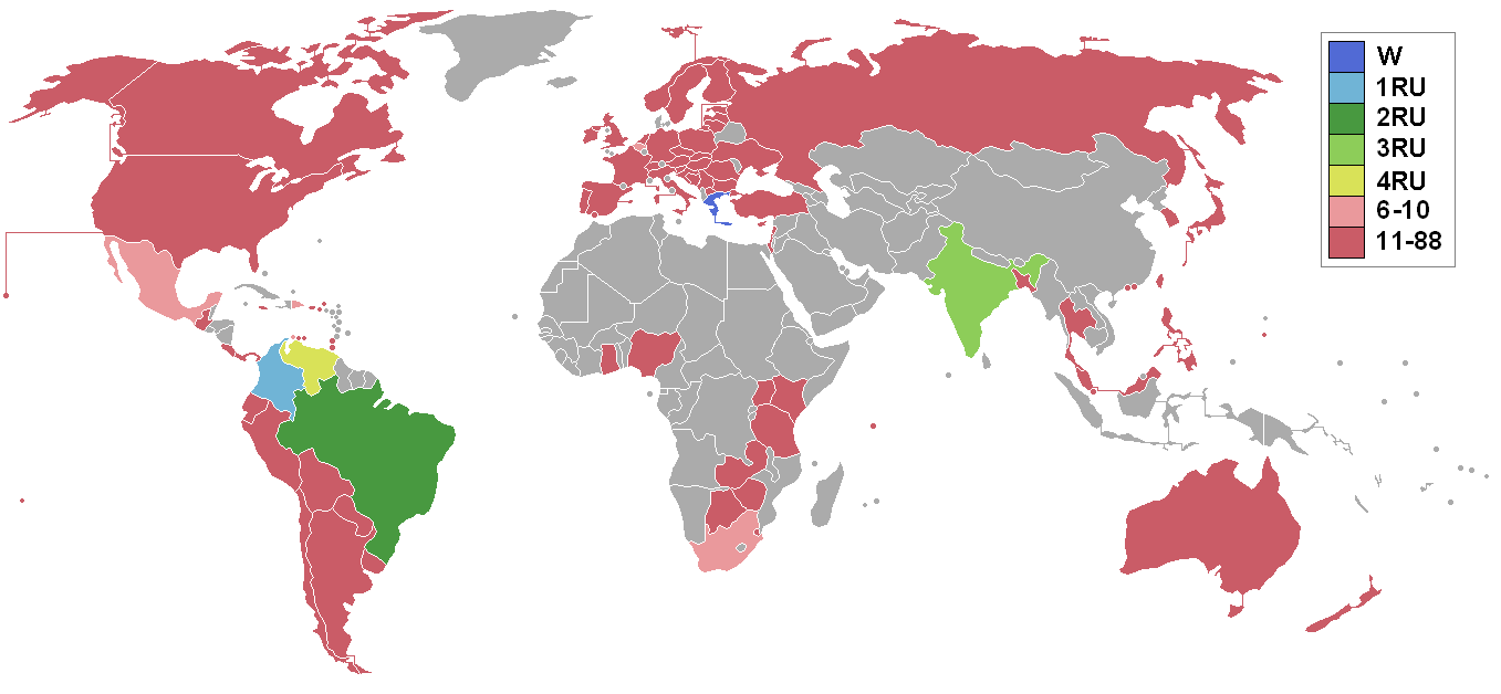 created by Joey80